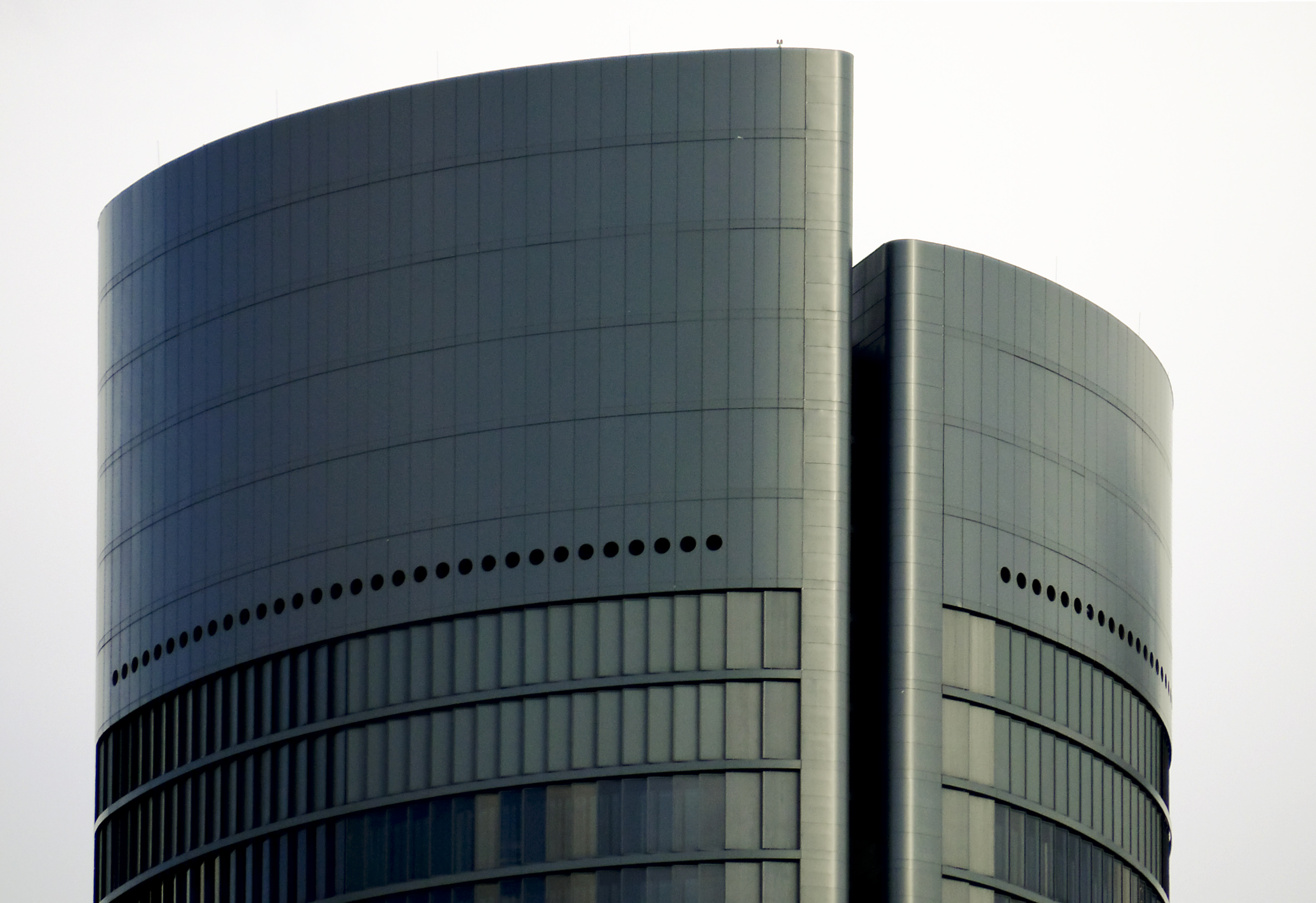 Madrid Cuatro Torres Business Area, Torre Sacyr Vallehermosa. Madrid, Spain.